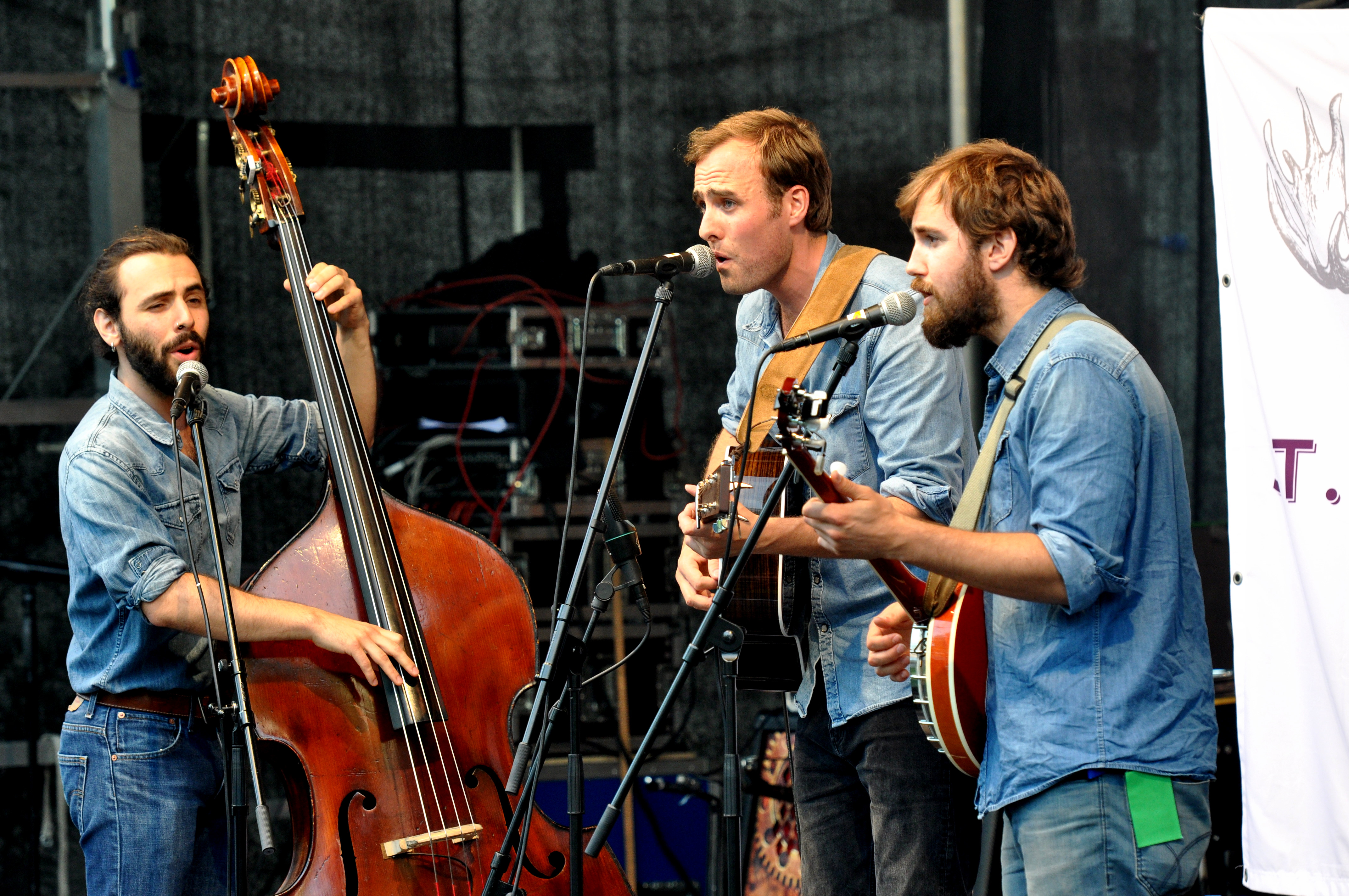 St. Beaufort (DEU) appearance at the 2016 "Folk am Neckar" festival at Mosbach-Neckarelz, Baden- Wuerttemberg, Germany Festivalsommer This photo was created with the support of donations to Wikimedia Deutschland in the context of the CPB project "Festival Summer".